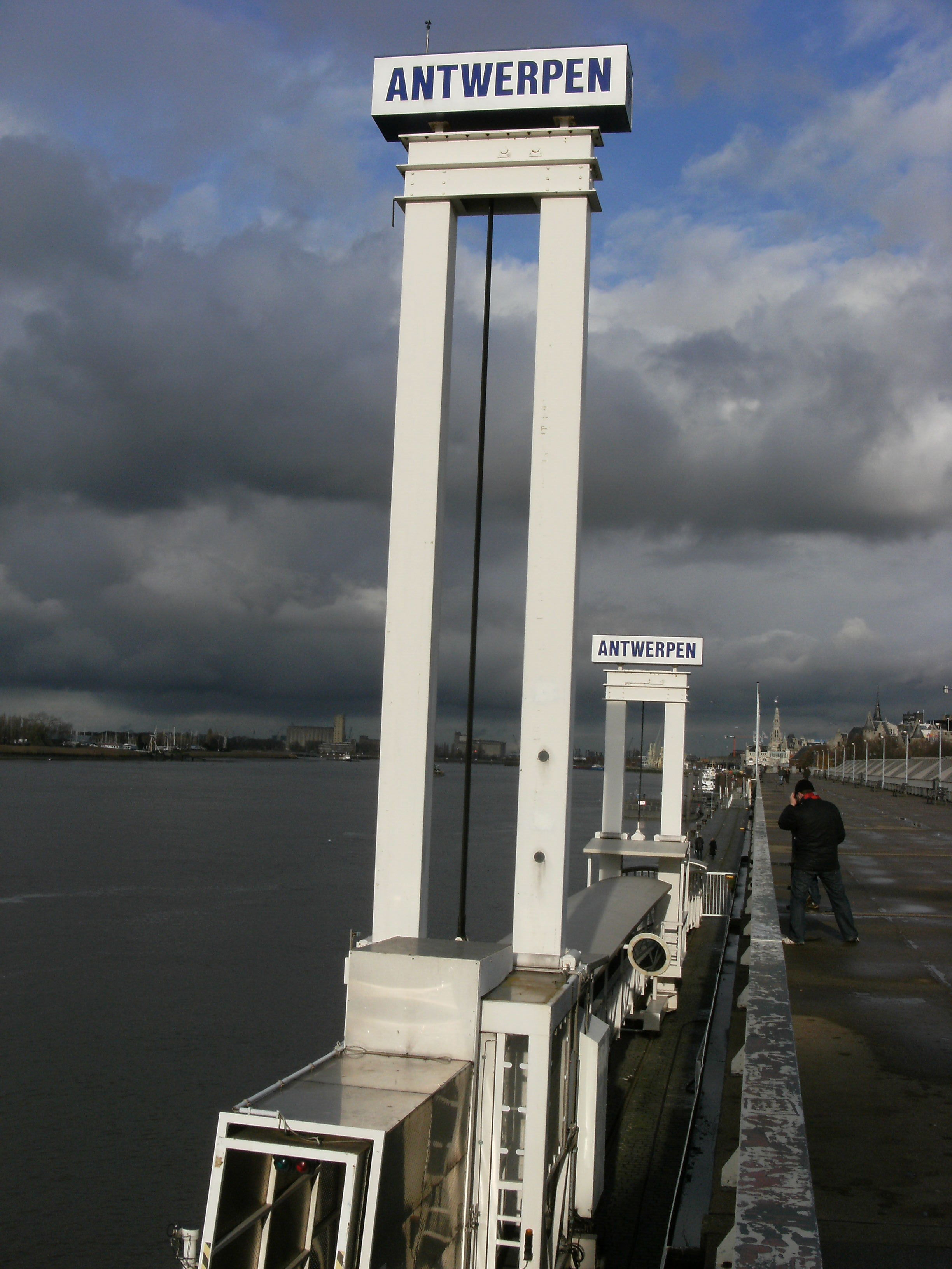 Antwerpen pier Antwerpen.